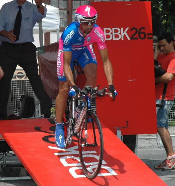 Fabio Baldato (Lampre-Fondital) at the 2007 Euskal Bizikleta.